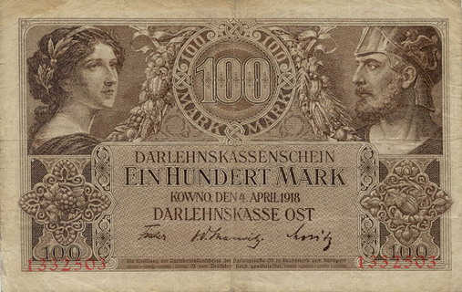 The obverse side of the 100 marks note issued in 1918 in Kowno by the German occupation authorities for the Baltic States (the Ober-Ost)